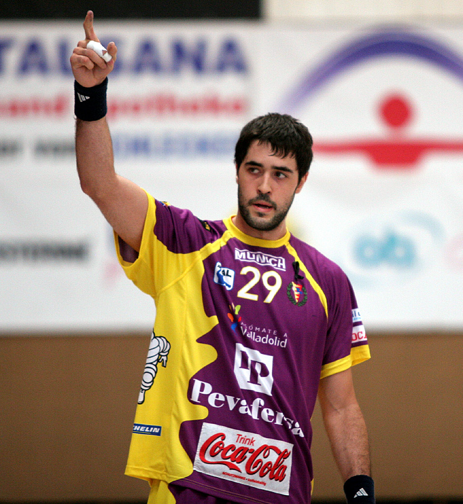 Raul Entrerrios, Spanisch handball player from BM Valladolid, on August 30th, 2008 in Ehingen prior a game for the Schlecker Cup 2008